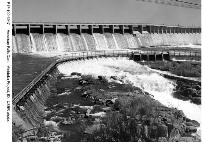 United States Bureau of Reclamation, American Falls storage dam and the Idaho Power Company dam on the Snake River. (Idaho), 1947